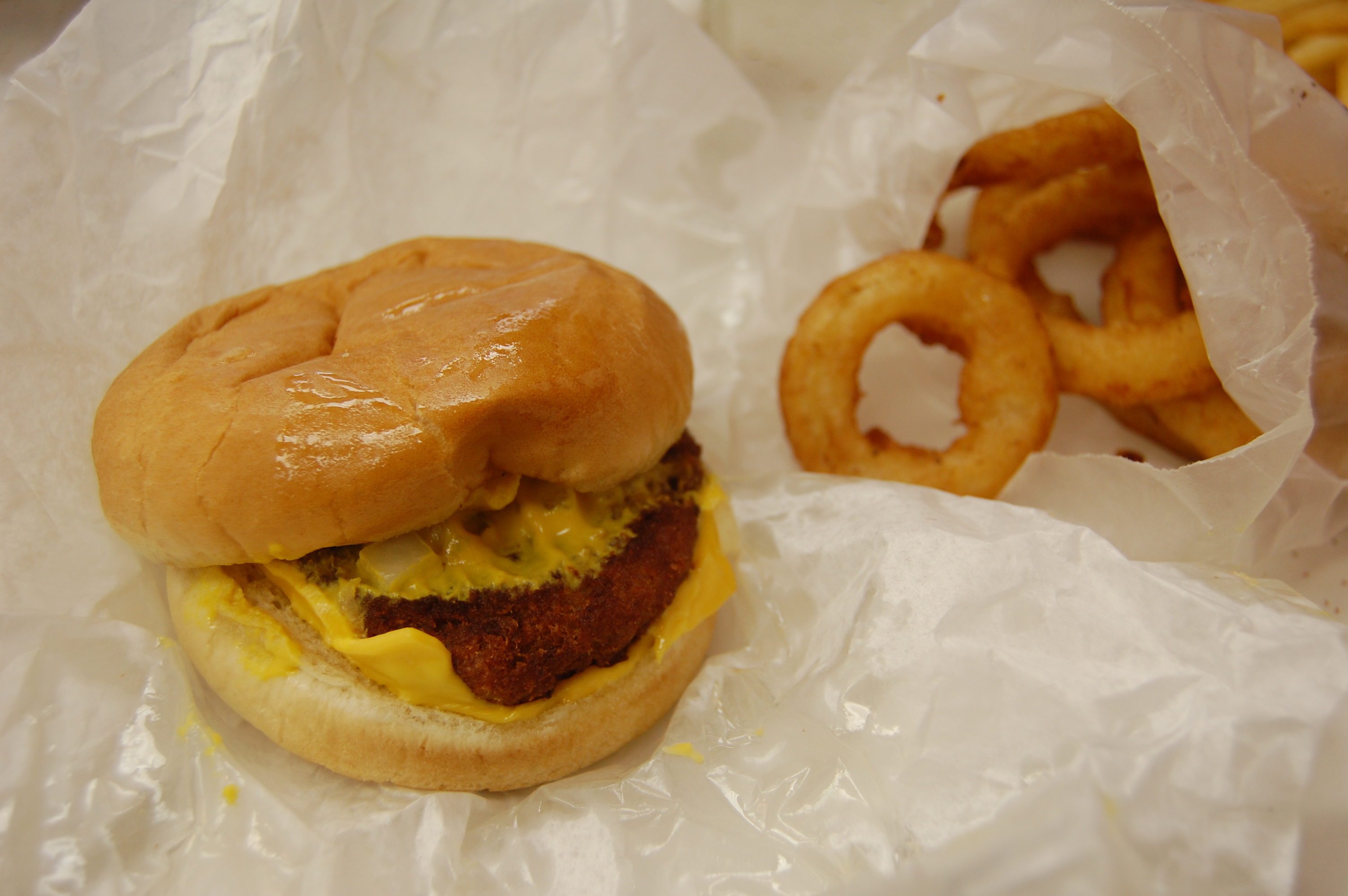 C. F. Penn Hamburgers - Decatur, AL Photo by Amy Evans Streeter, SFA oral historian February 2010